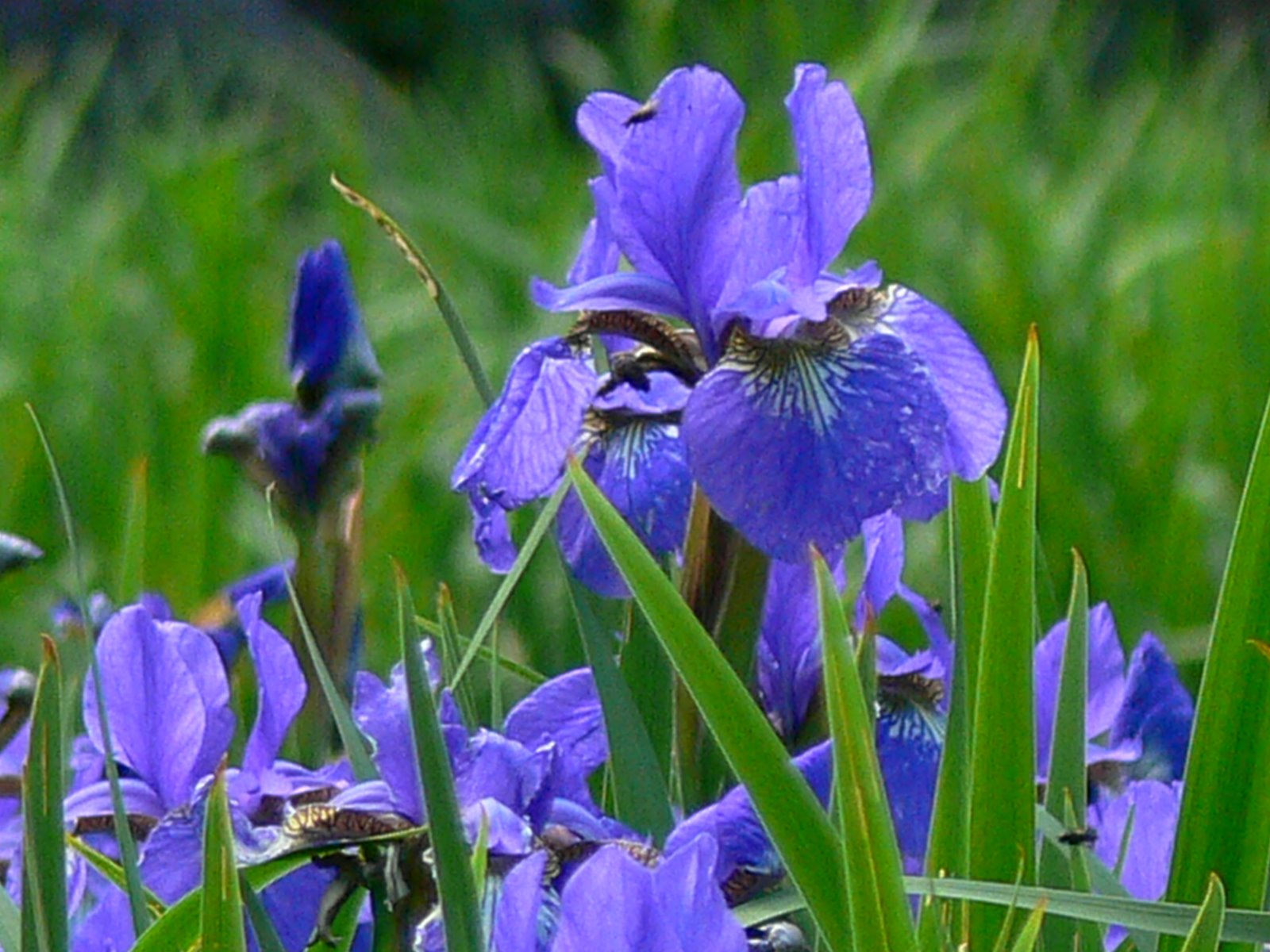 Yokosuka Iris Garden.Panasonic Lumix DMC-FZ30